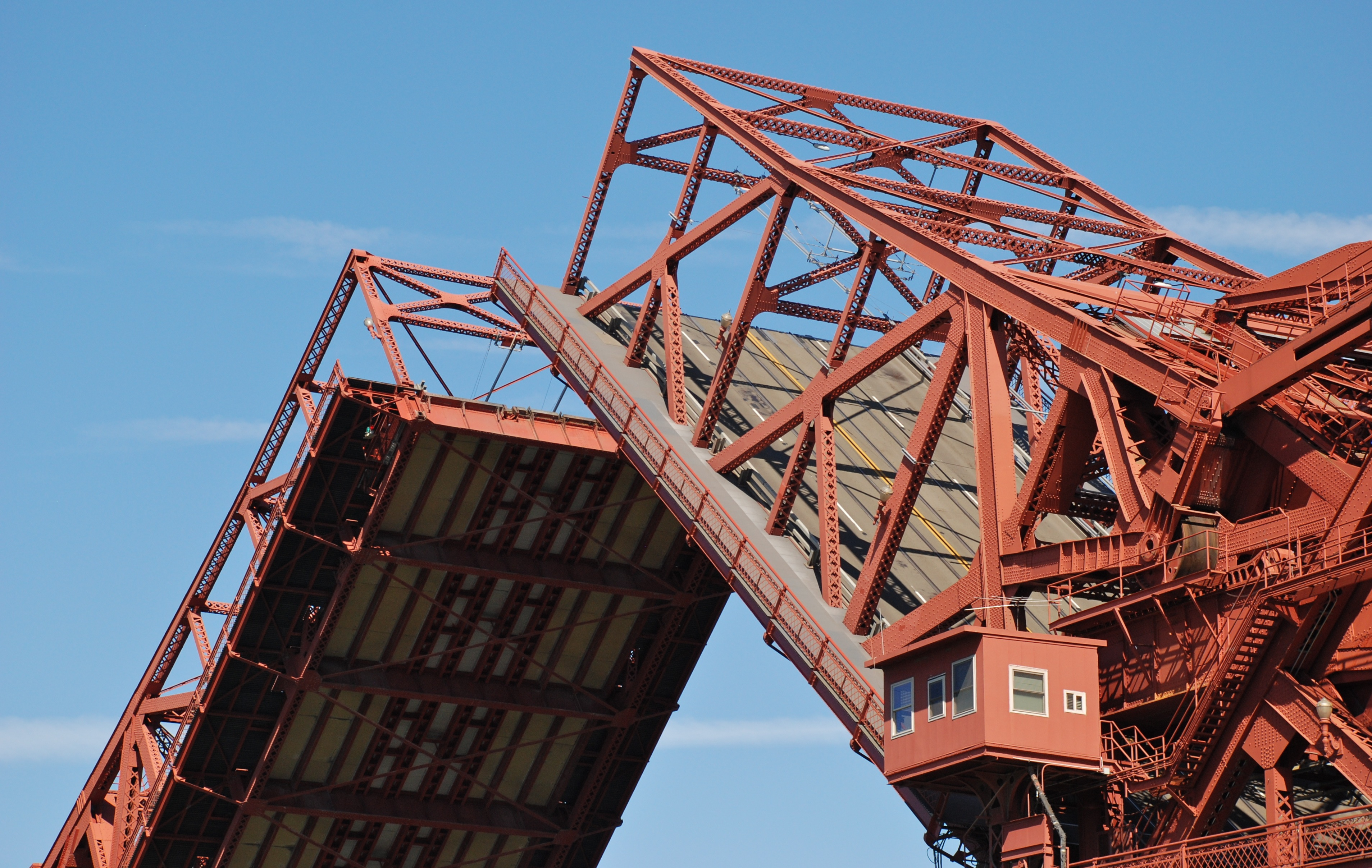 Close-up of the double-leaf bascule draw span of the Broadway Bridge, in Portland, Oregon, opened for a ship to pass. The bridge was completed in 1913 and is listed on the U.S. National Register of Historic Places. Visible on the bridge are streetcar tracks and (rigid) overhead electric conduits for the Portland Streetcar system, which restored streetcar service across the bridge in 2012. Streetcars previously crossed the bridge from 1913 until 1940.